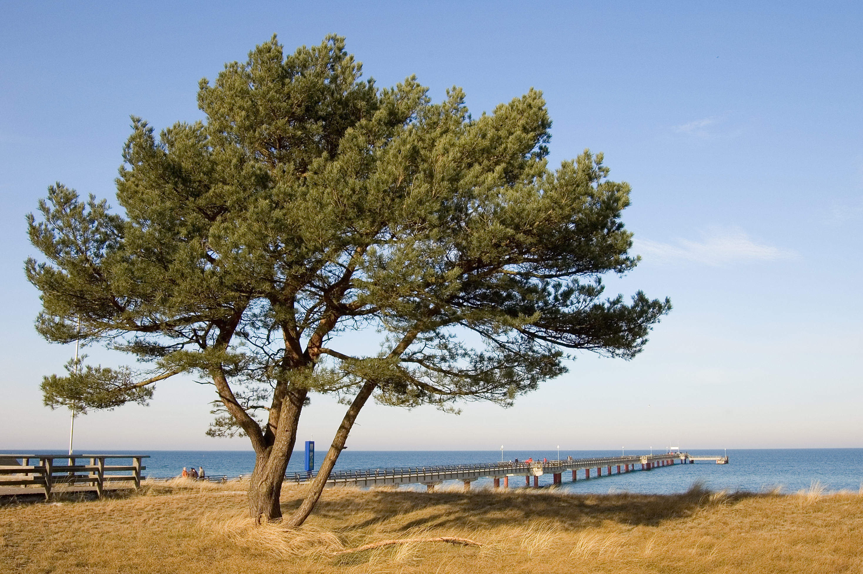 The pier of the seaside resort Prerow in Nordvorpommern, Germany. On the foreground, a Scott's pine (Pinus sylvestris).